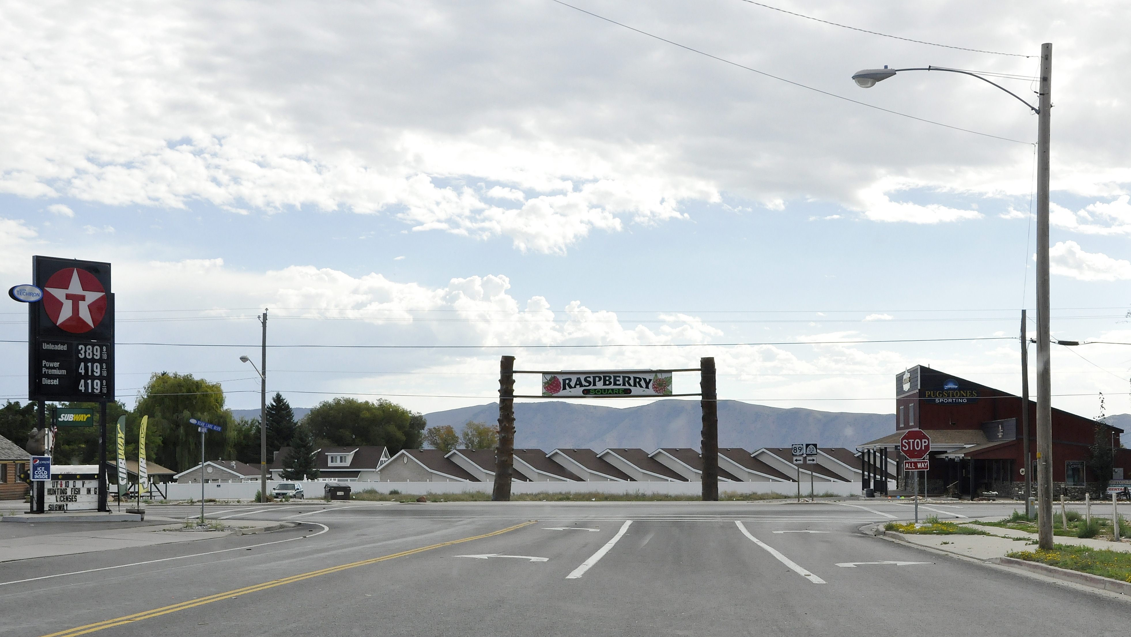 Garden City (Utah) and its raspberry market